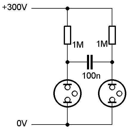 Ionics - Symmetric astable multivibrator with neon bulbs - unit cell of File:Random Relaxation Oscillator with Neons.png